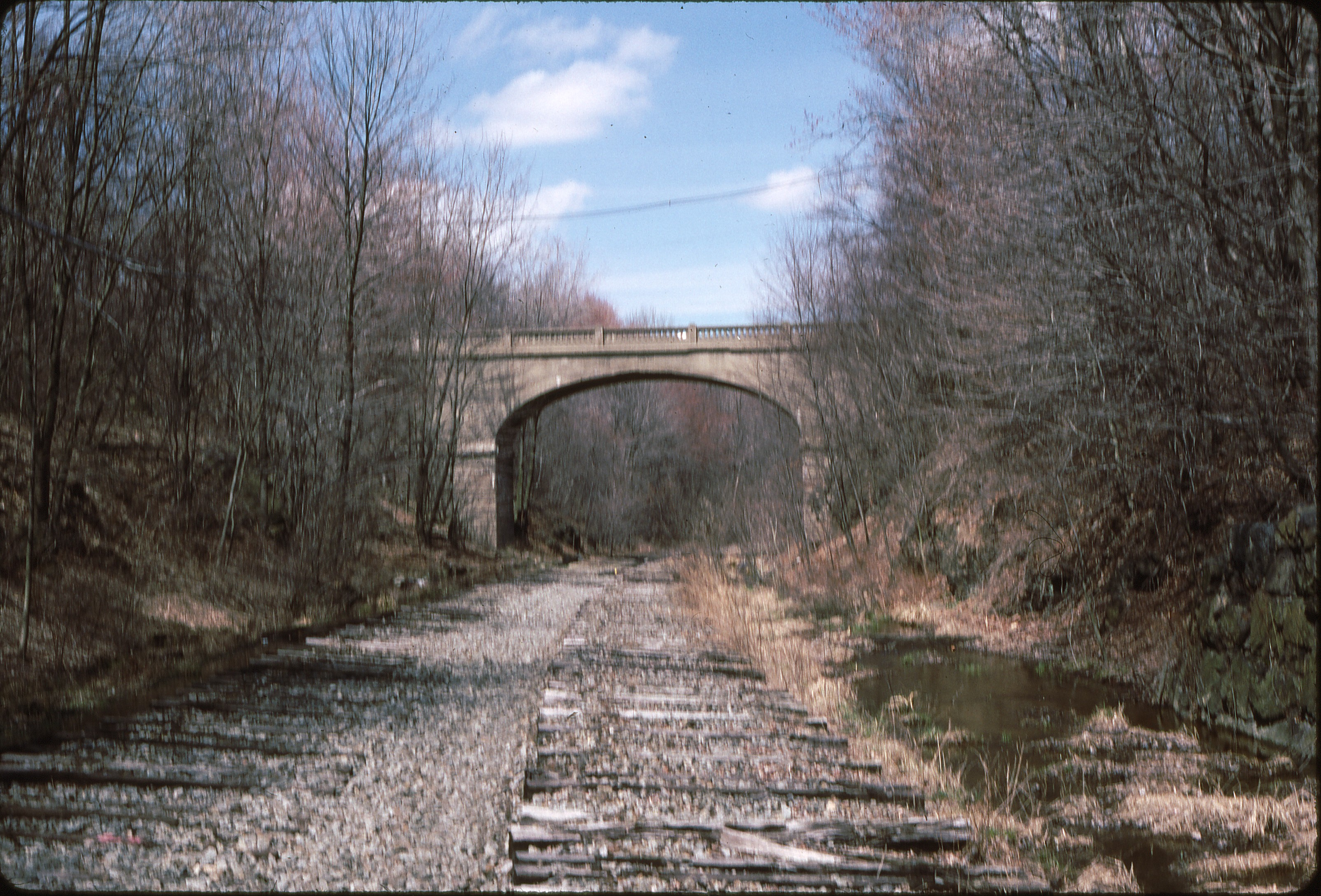 Wally From Columbia (NJ) (talk) 04:50, 19 December 2010 (UTC)